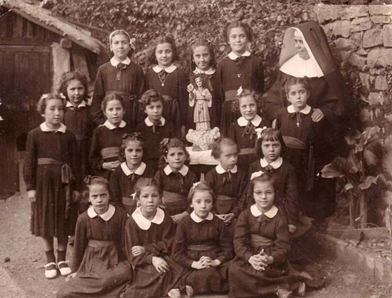 School class group in Figaredo, Spain, 1951.